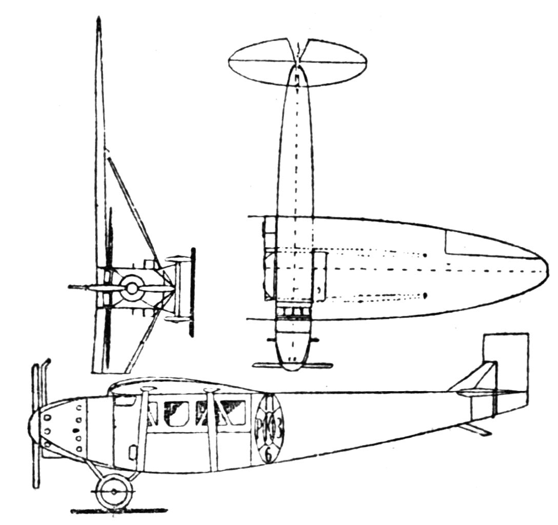 Kalinin K-1 3-view drawing from Le Document aéronautique April,1927